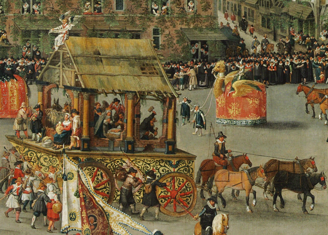 Nativity scene with Joseph hammering away. Detail of the 5th painting in Alsloots Ommegang series.